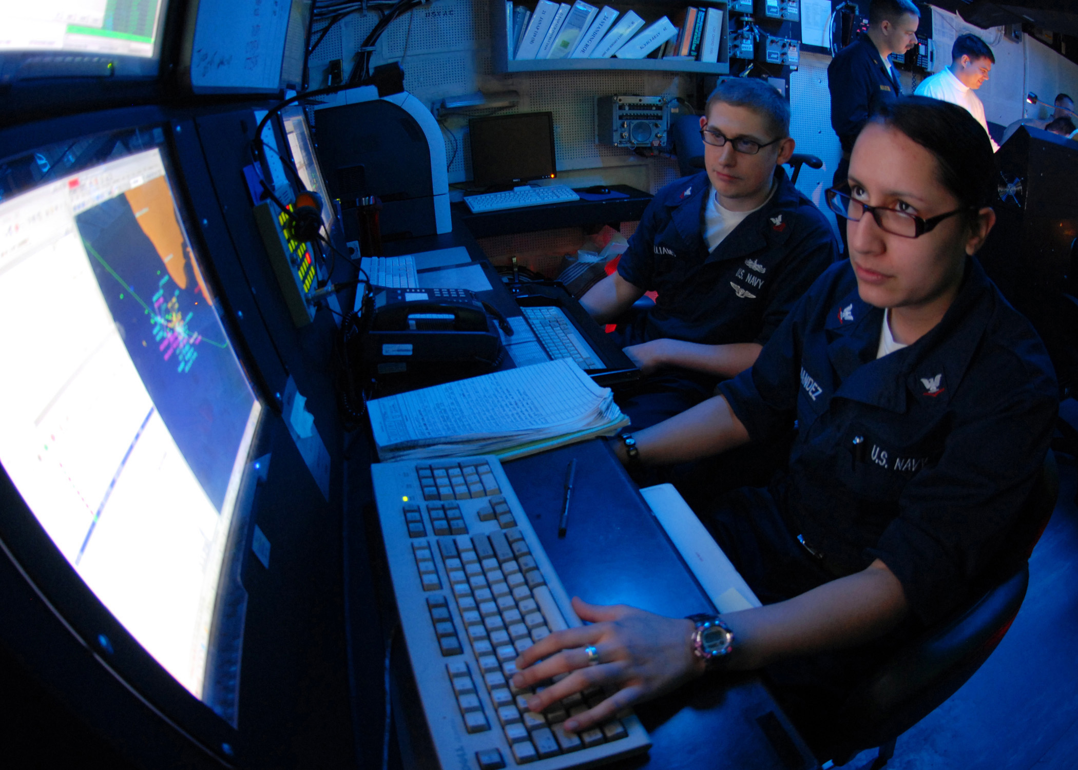 INDIAN OCEAN (September 4, 2008) Operations Specialist 3rd Class Sarah M. Hernandez, from Rosamond, Calif., stands the global command and control systems-maritime (GCCS-M) watch in tactical flag command center (TFCC) aboard the Nimitz-class aircraft carrier USS Abraham Lincoln (CVN 72). Lincoln and embarked Carrier Air Wing (CVW) 2 are in the U.S. 7th Fleet area of responsibility on a scheduled 7-month deployment. (U.S. Navy photo by Mass Communication Specialist 3rd Class Ronald A. Dallatorre/Released)